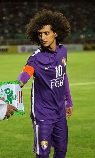 Omar Abdulrahman in Isfahan